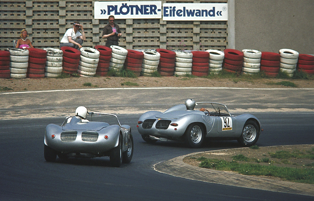 Porsche 718 RSK with nr. 92 built in 1958 at the AvD Oldtimer-GP at the Nordkehre of the Nürburgring